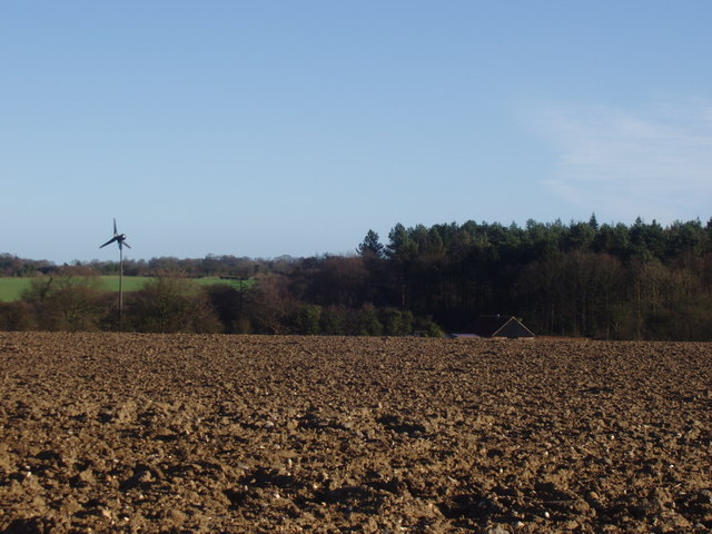 Wind turbine On the edge of conifer plantation. The Lings, one isolated North Norfolk home prefers its own form of power generation.